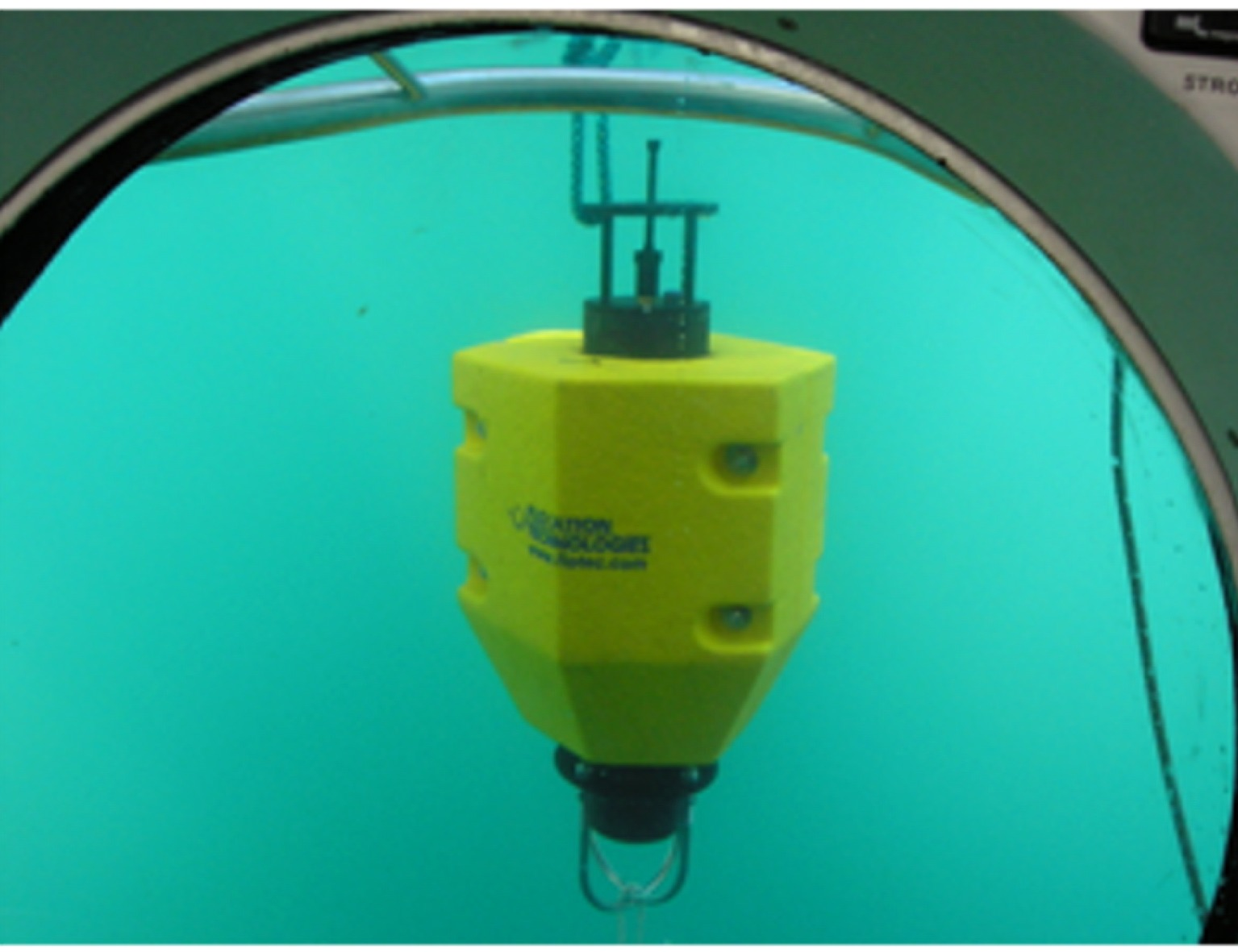 The submersible 'Austria Sub' encounters a baseline transponder of its AquaMap long-baseline (LBL) acoustic positioning system in Lake Constance (Austria). Baseline transponders are reference points for navigation, and acoustically measuring the distance to these points establishes the current position of the submersible. Tethered by a short (2m) anchor line and a weight to the sea floor, the station is buoyed by its yellow flotation collar, keeping it stable in the water column like an underwater antenna tower.